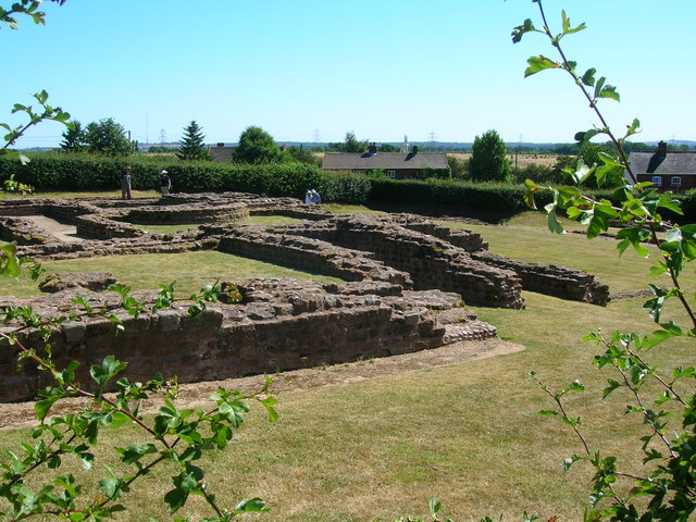 Letocetum Roman remains near to Wall, Staffordshire, Great Britain (July 2006)